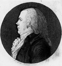 Massachusetts politician Dwight Foster (1757-1823).